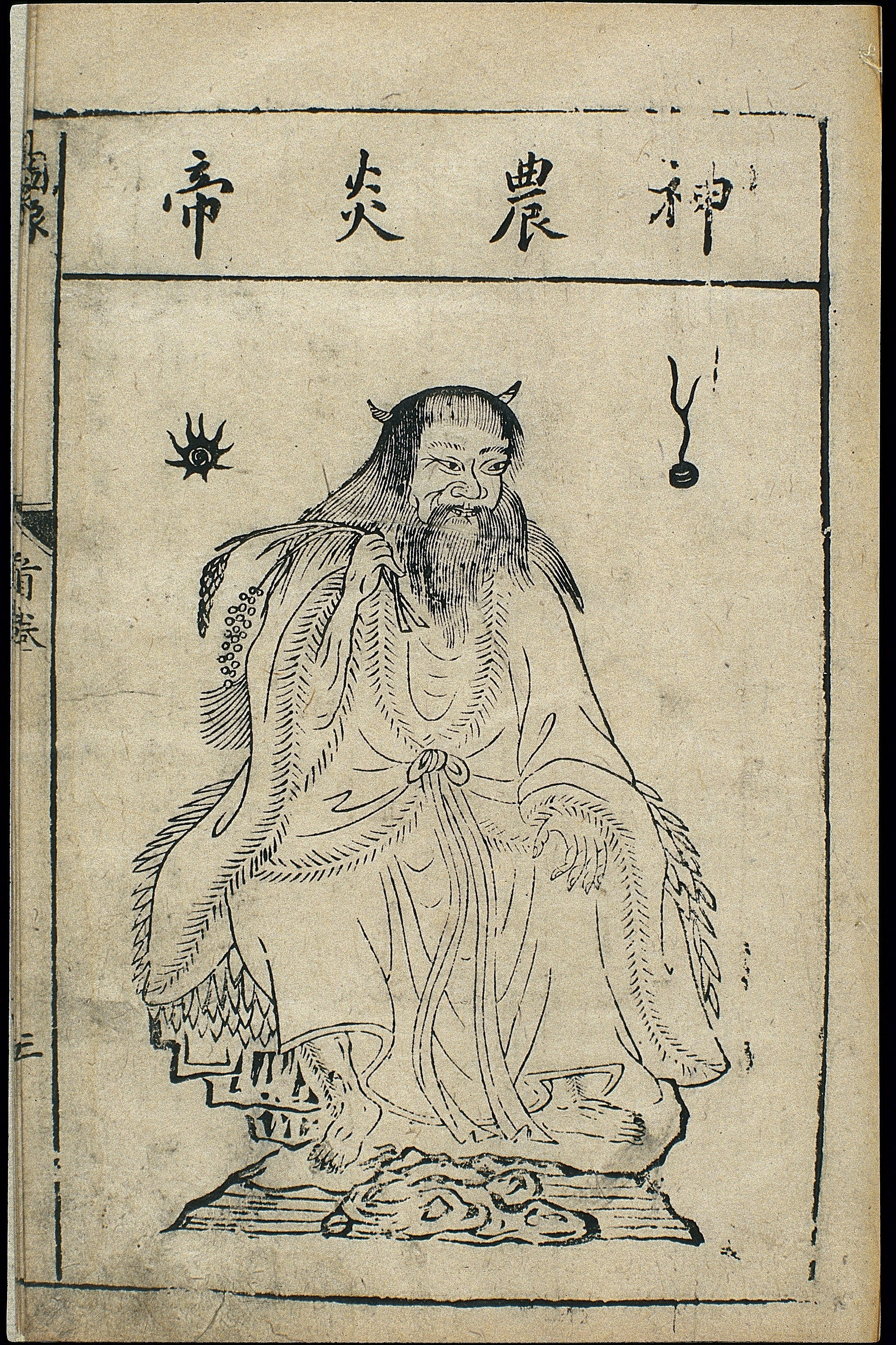 One of a series of woodcuts of illustrious physicians and legendary founders of Chinese medicine from an edition of Bencao mengquan (Introduction to the Pharmacopoeia), engraved in the Wanli reign period of the Ming dynasty (1573-1620) -- Volume preface, 'Lidai mingyi hua xingshi' (Portraits and names of famous doctors through history). The images are attributed to a Tang (618-907) creator, Gan Bozong. The text states: Shen Nong Yandi (the Divine Farmer; Red Emperor) was surnamed Jiang [Ginger]. In remote antiquity, he succeeded Fuxi as Emperor. He created agricultural implements and showed human beings how to cultivate the land. The originator of medicine, he is also supposed to have tasted hundreds of herbs to discover their effects. The eponymous text Shen Nong bencao jing (The Divine Farmer' s Canon of Materia Medica) dates from the Qin or Han period. According to tradition, he had a human body and ox's head, and he is depicted here with horns.Woodcut By: Gan Bozong (Tang period, 618-907)